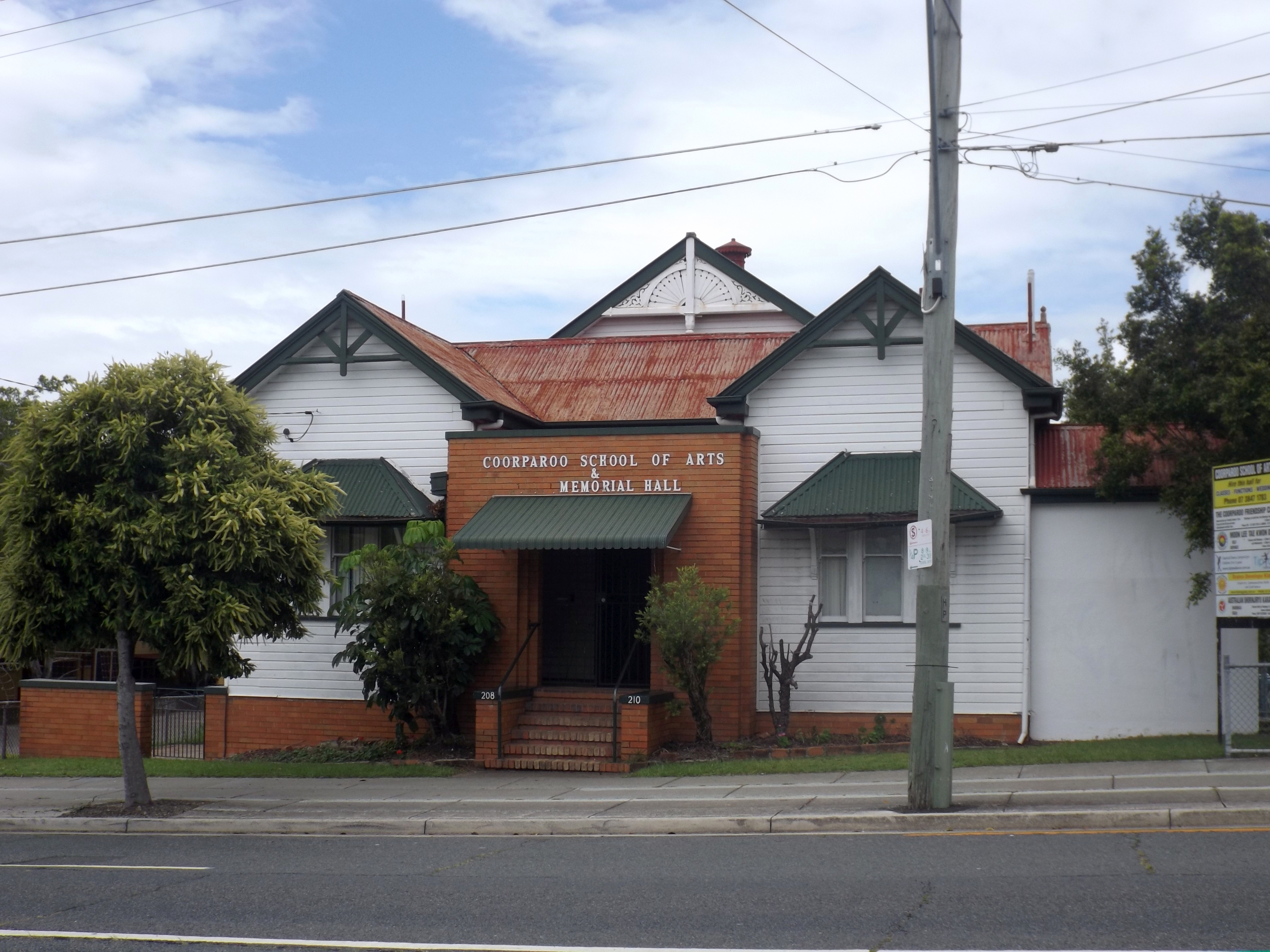 Photo of Coorparoo School of Arts and RSL Memorial Hall along Cavendish Road at Coorparoo, Brisbane, Queensland, Australia.